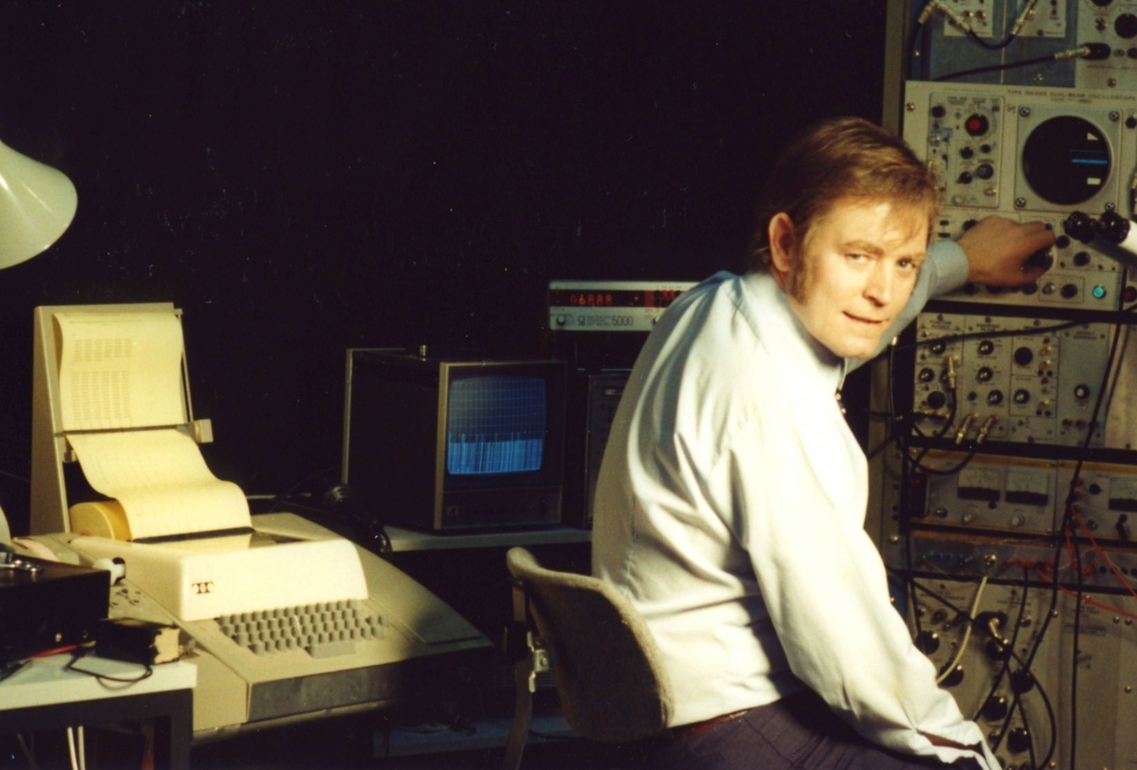 Historical setup for recordings of responses of a neuron in the brain of a common toad towards prey.